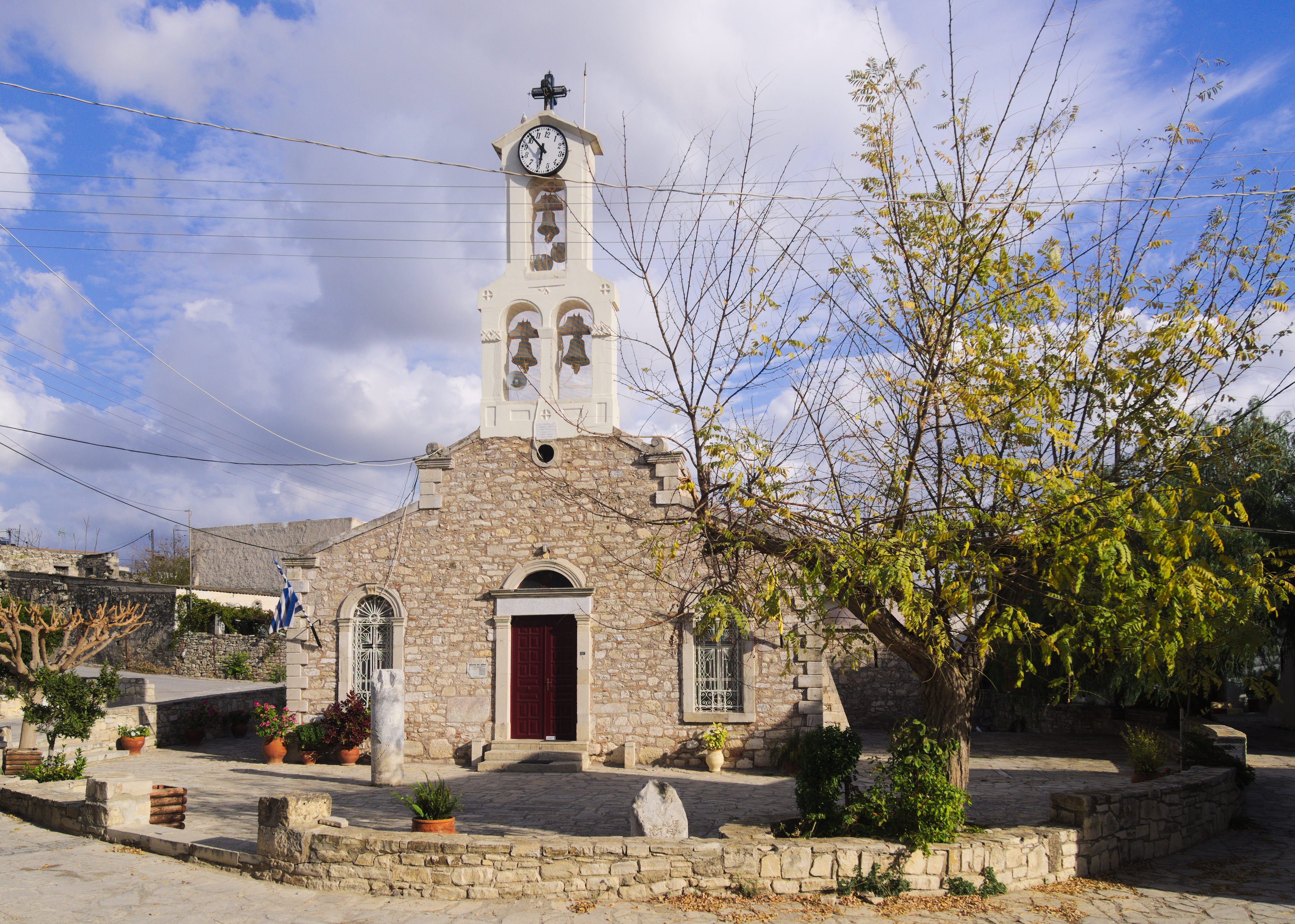 The central square of the old part of Agioi Deka, with the byzantine church.